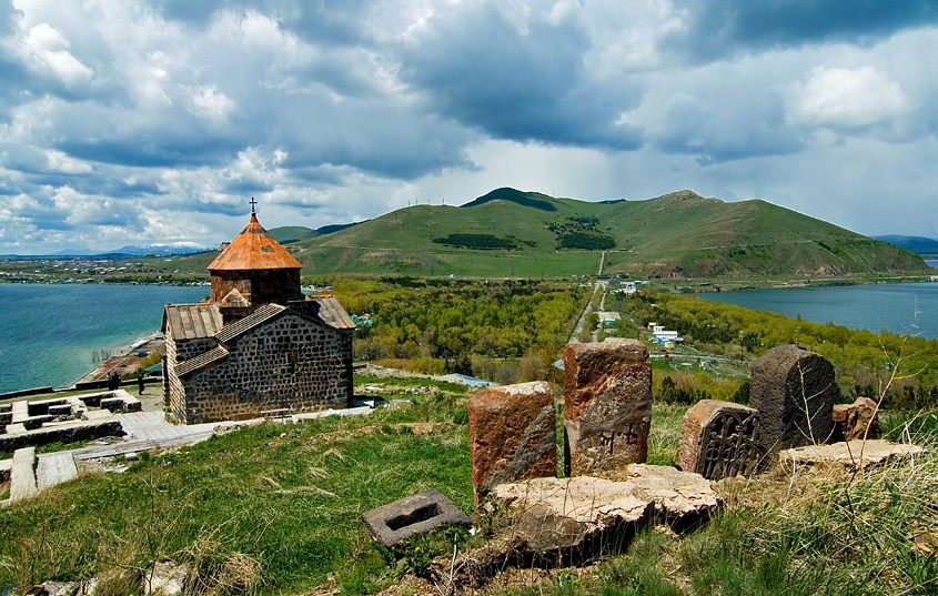 Sevan Mon., Armenia